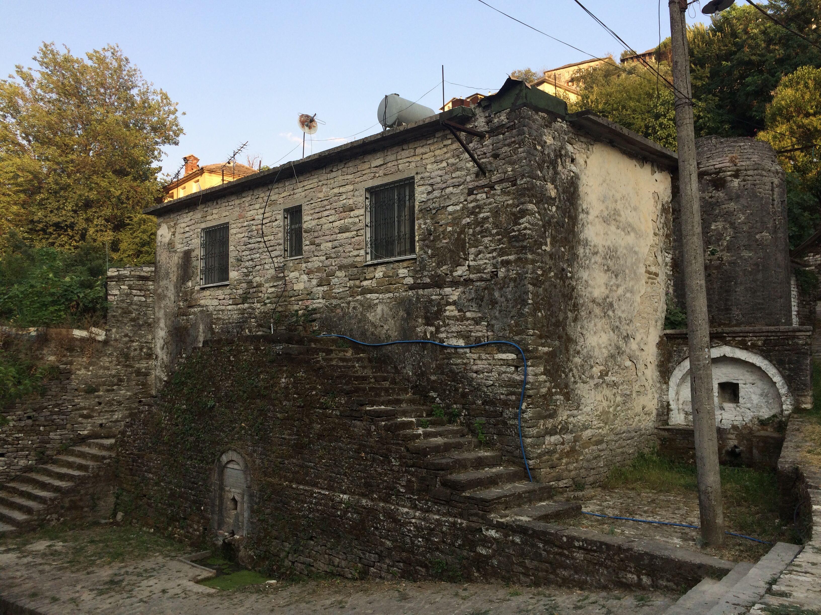 Ruins of Meçite Mosque from the front